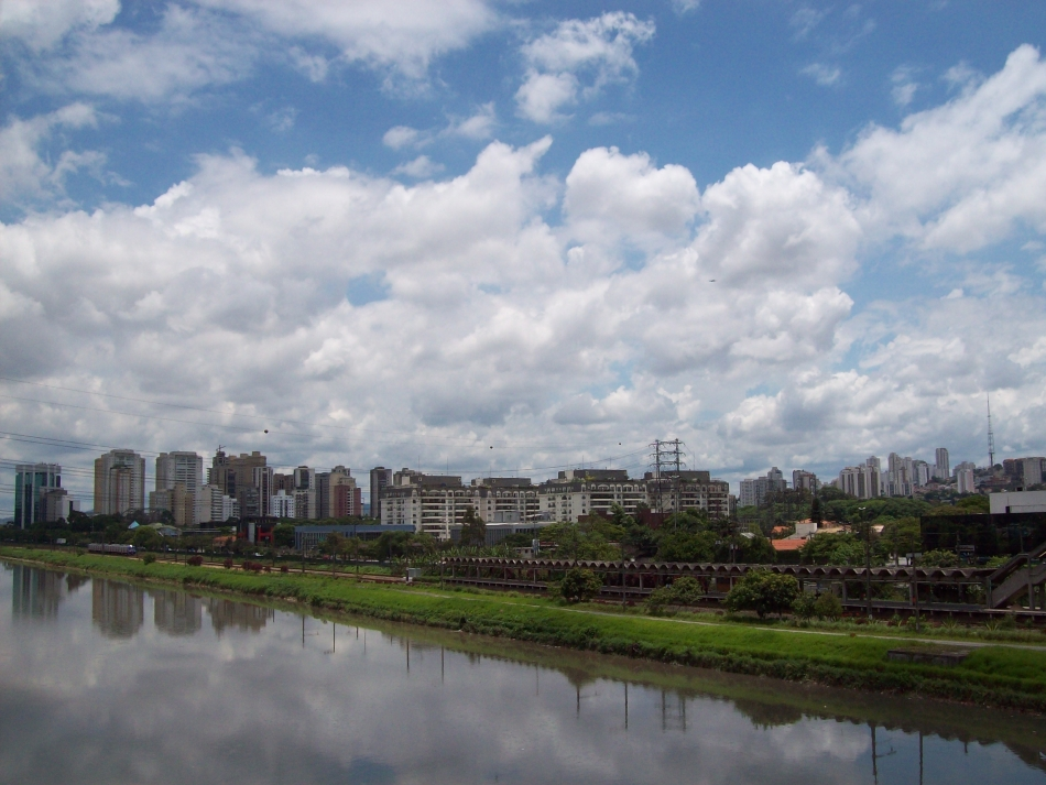 Pinheiros river and Alto de Pinheiros neighborhood, in West zone of São Paulo City.